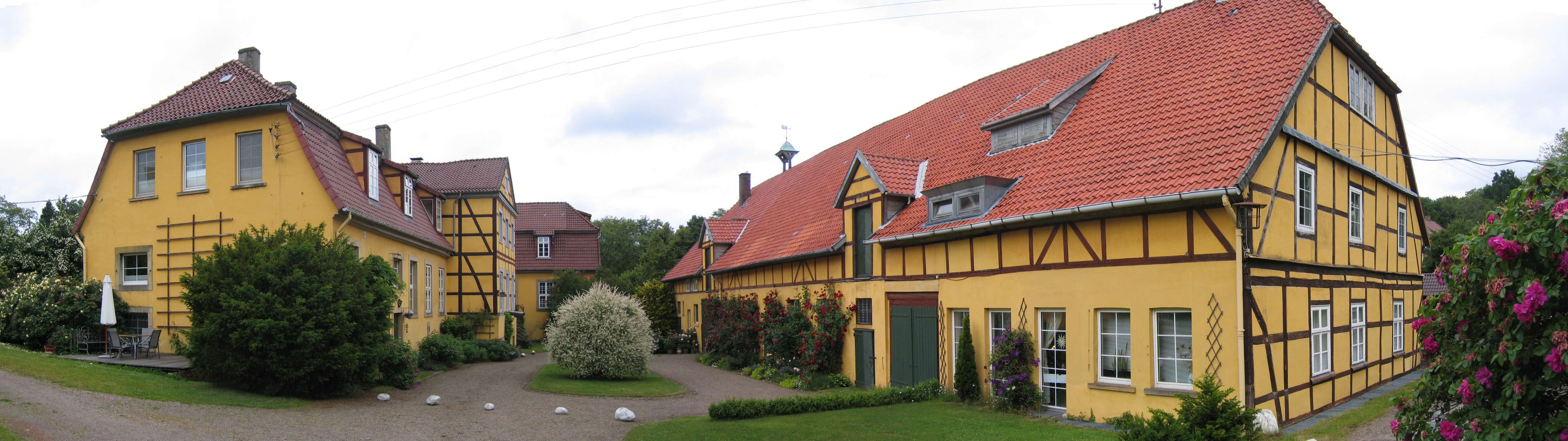 Obernfelde Manor in Lübbecke, District of Minden-Lübbecke, North Rhine-Westphalia, Germany.